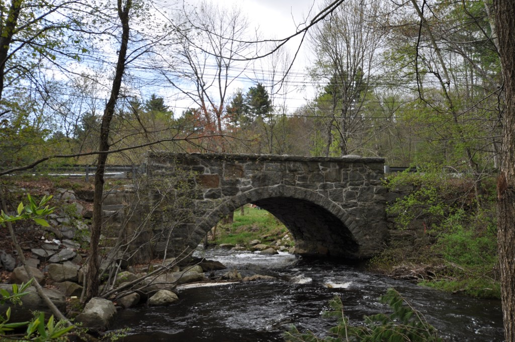 Bartlett's Bridge in Oxford, Massachusetts, spanning the French River.